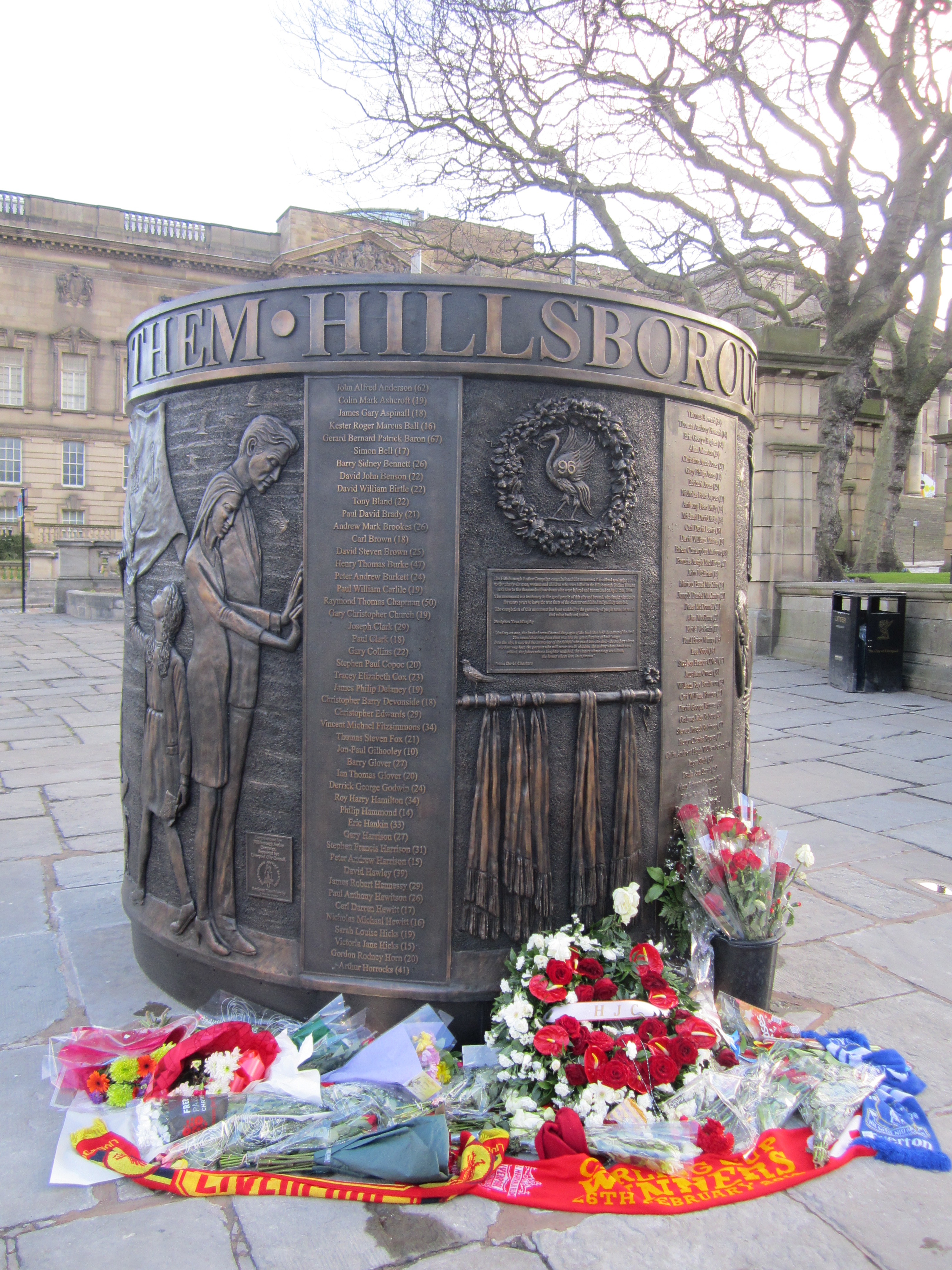 Hillsborough memorial, Old Haymarket, Liverpool, England.